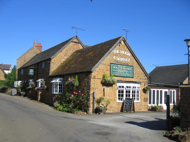 The Moon and Sixpence. The village pub in the middle of Hanwell.